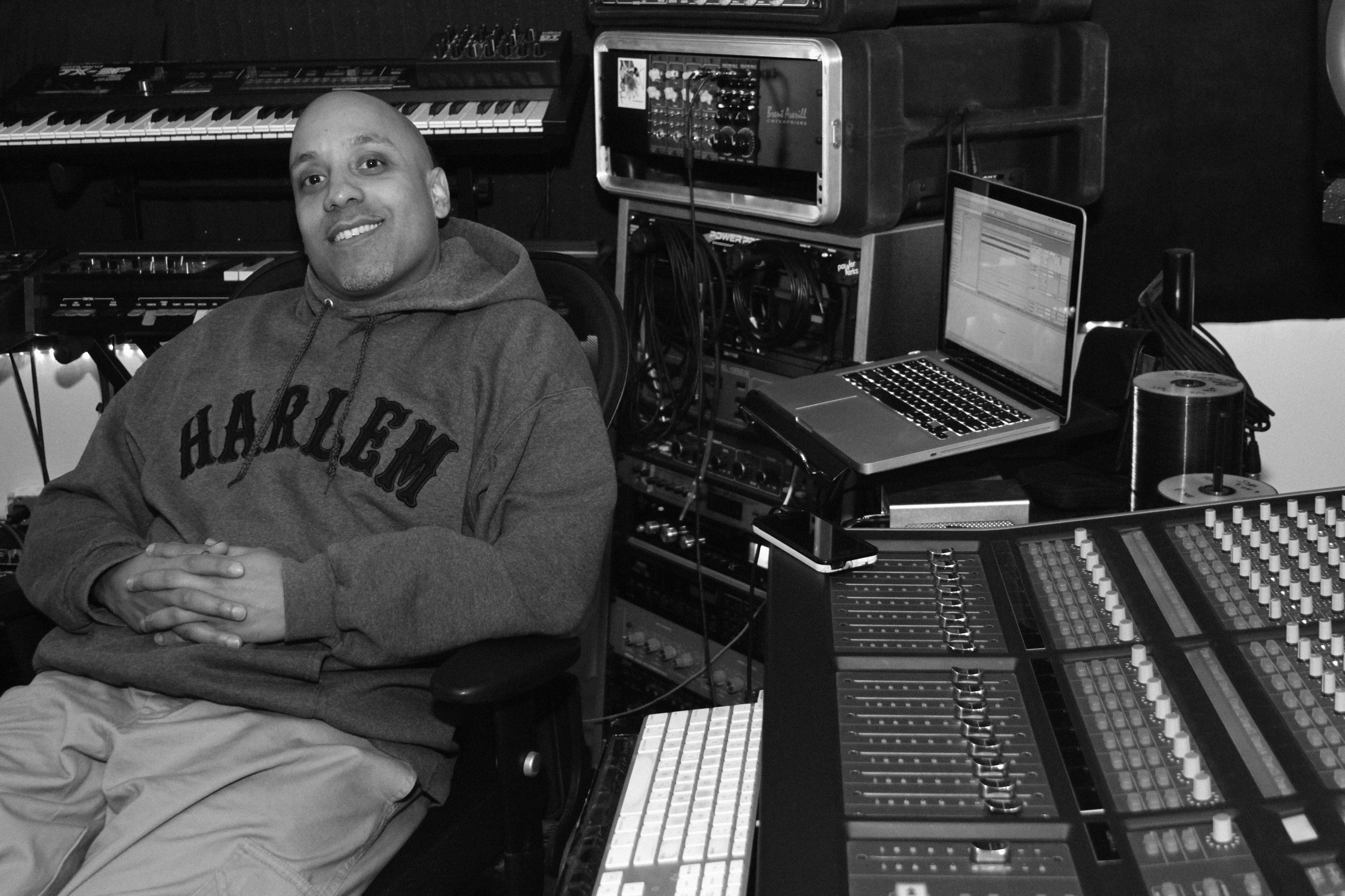 Alap Momin in his Harlem, New York studio 2015